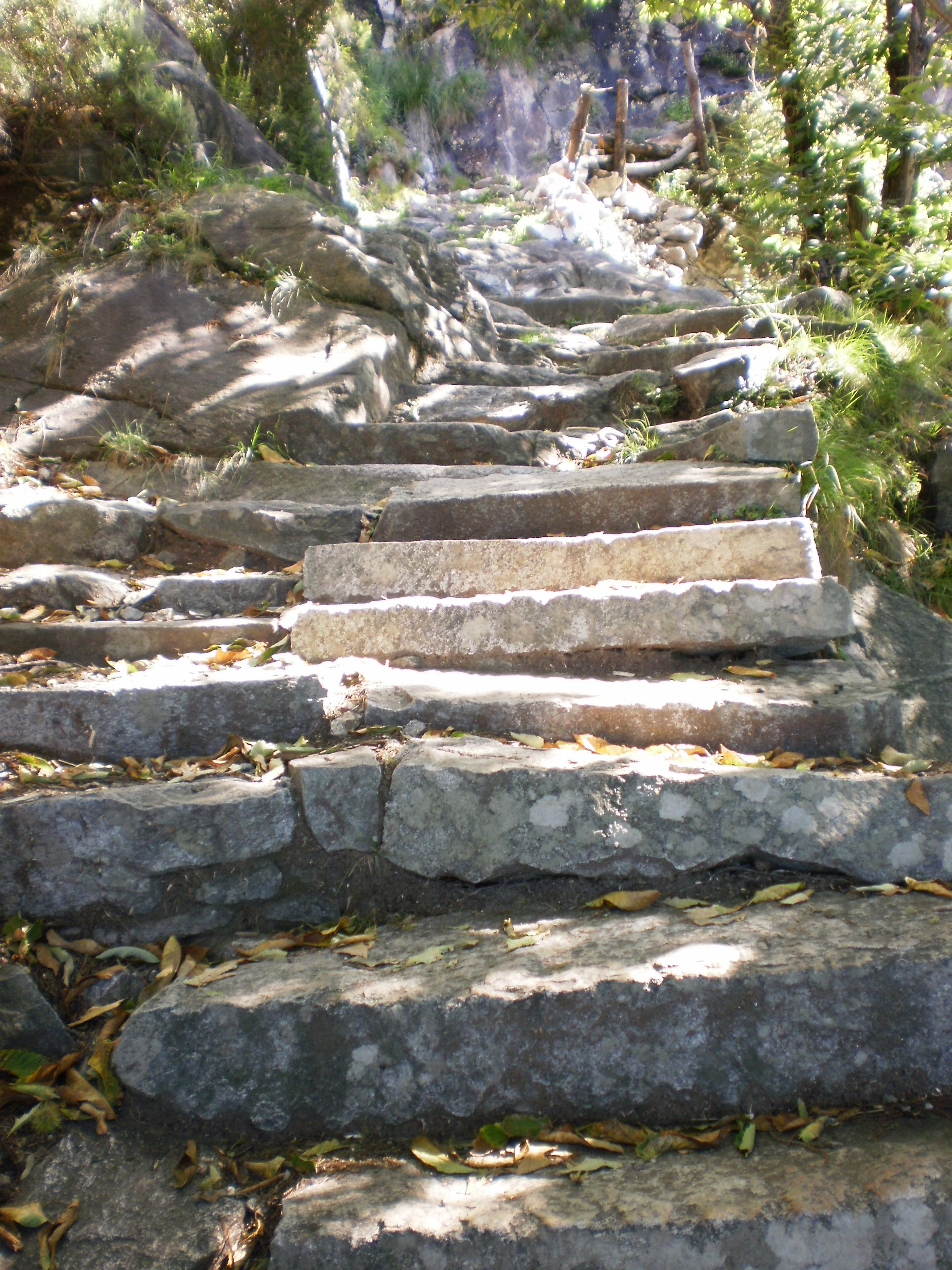 Stone steps on the path from Novate Mezzola to Codera